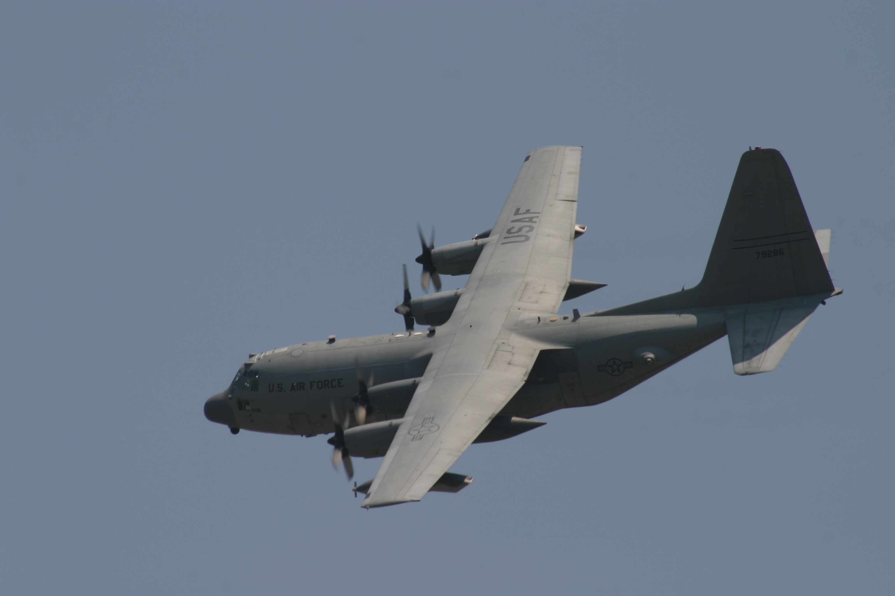 The Air Force Special Operations Command’s MC-130W takes off on its maiden flight over Hurlburt Field, Fla., in 2006.